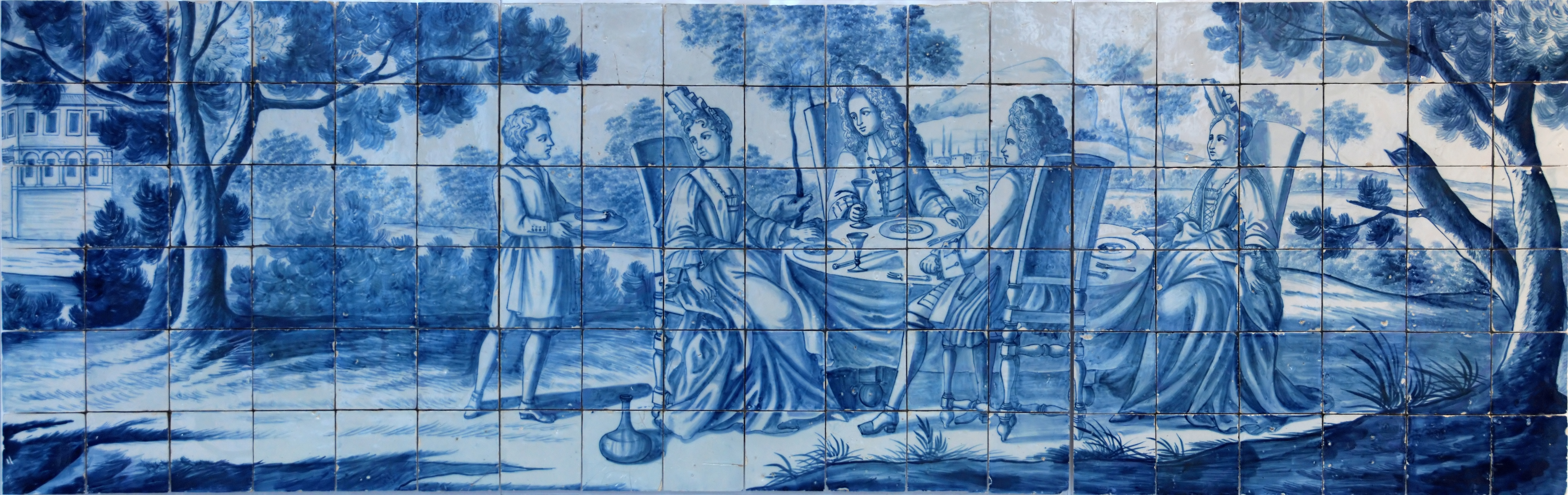 Panel of glazed tiles (azulejos), 18th century. Museu Nacional do Azulejo, Lisbon, Portugal